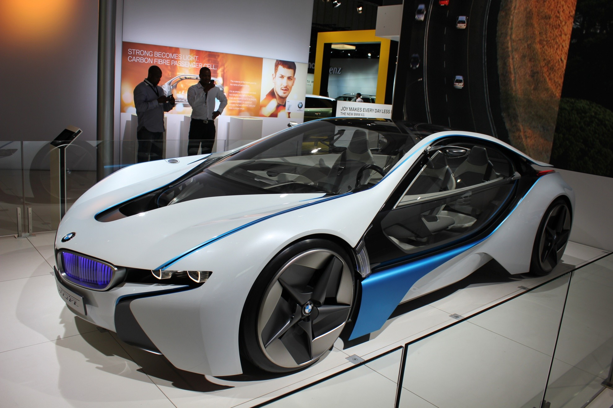 The BMW Vision EfficientDynamics concept made its African premiere at the Johannesburg International Motor Show 2011